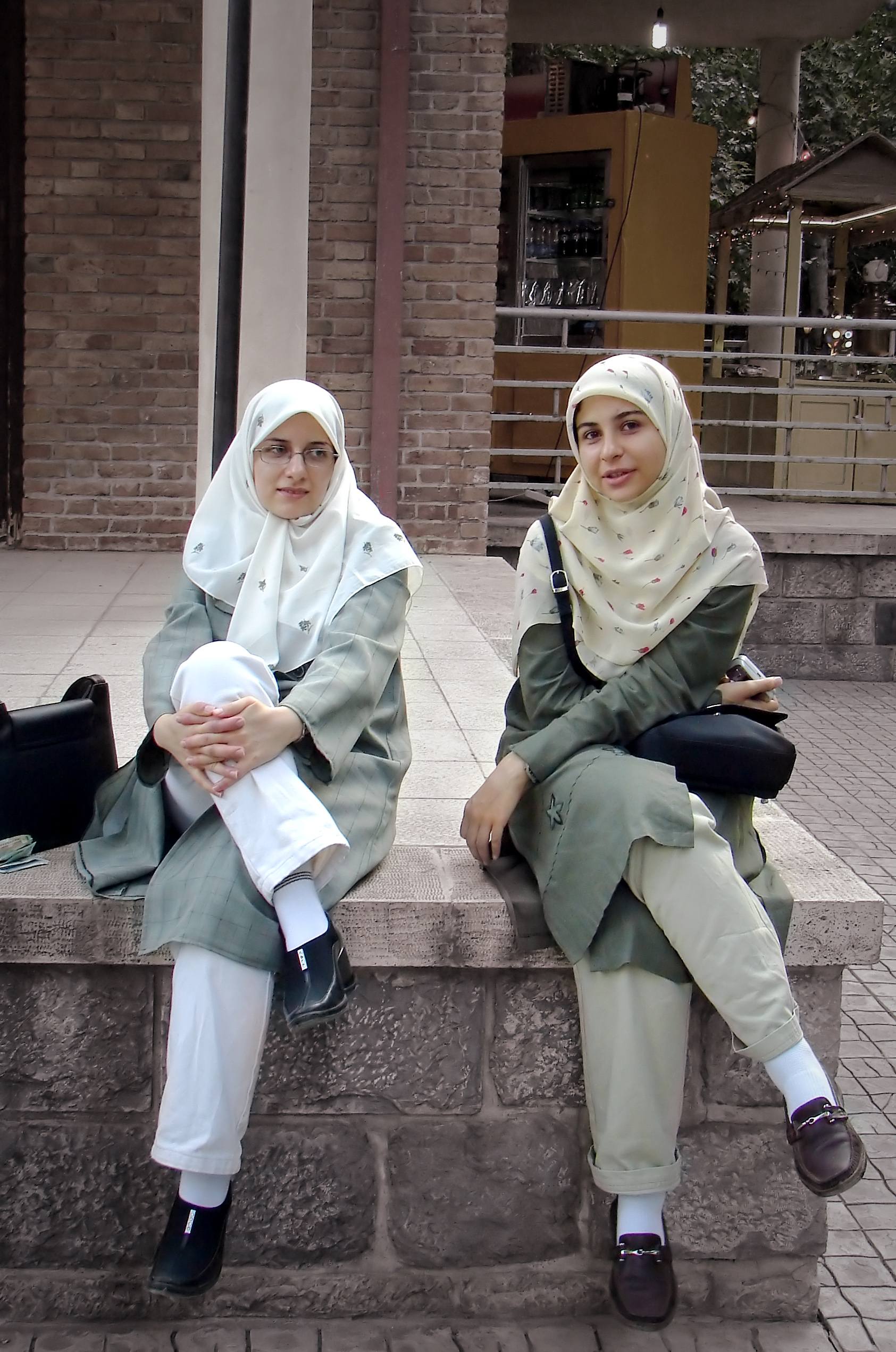 Two seated women in Iran wearing proscribed hijab clothing.